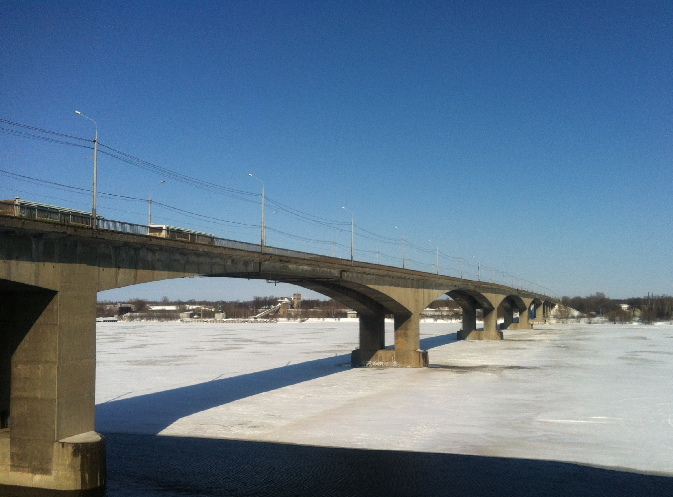 Yaroslavl Oktyabrskiy Bridge